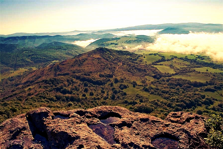 Senoklas high place BG